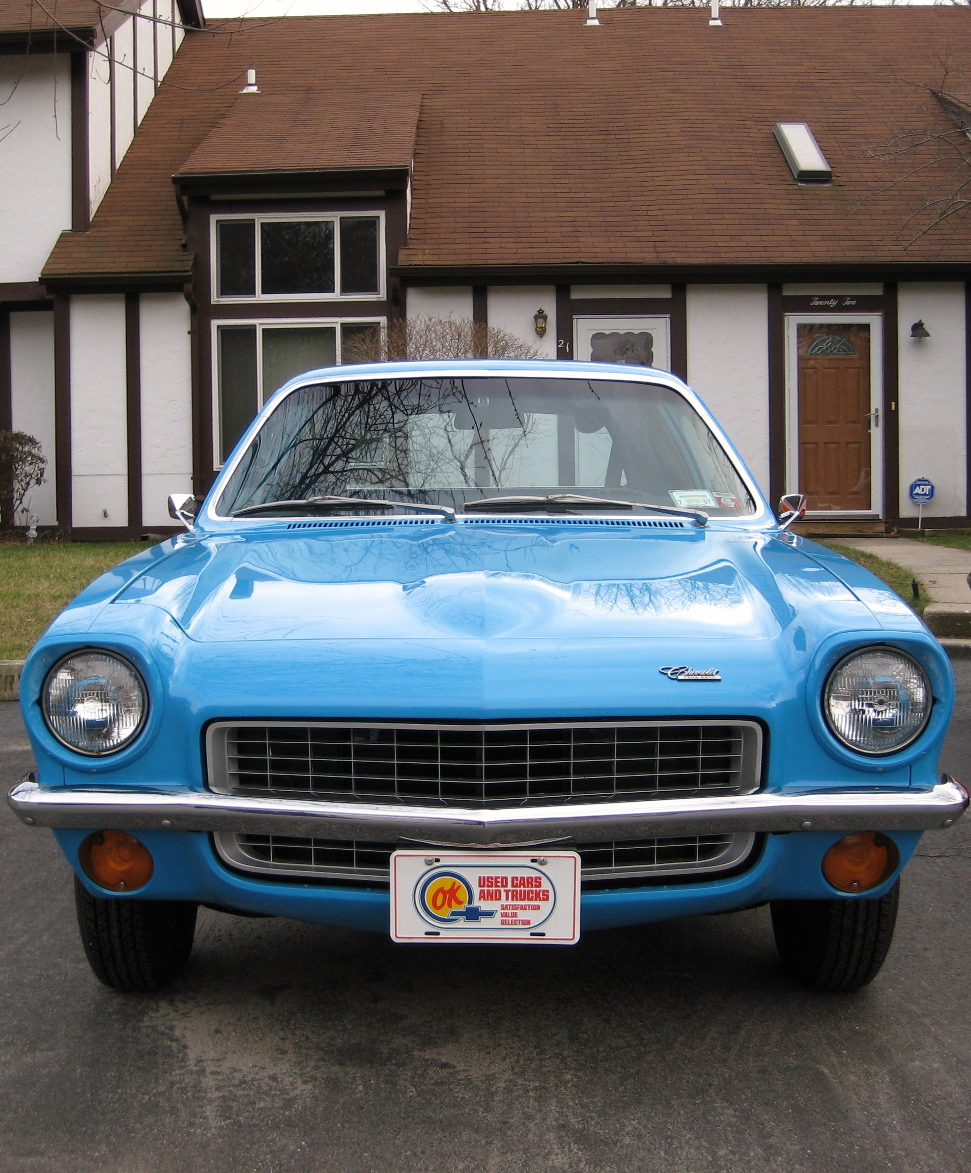 1971 Chevrolet Vega